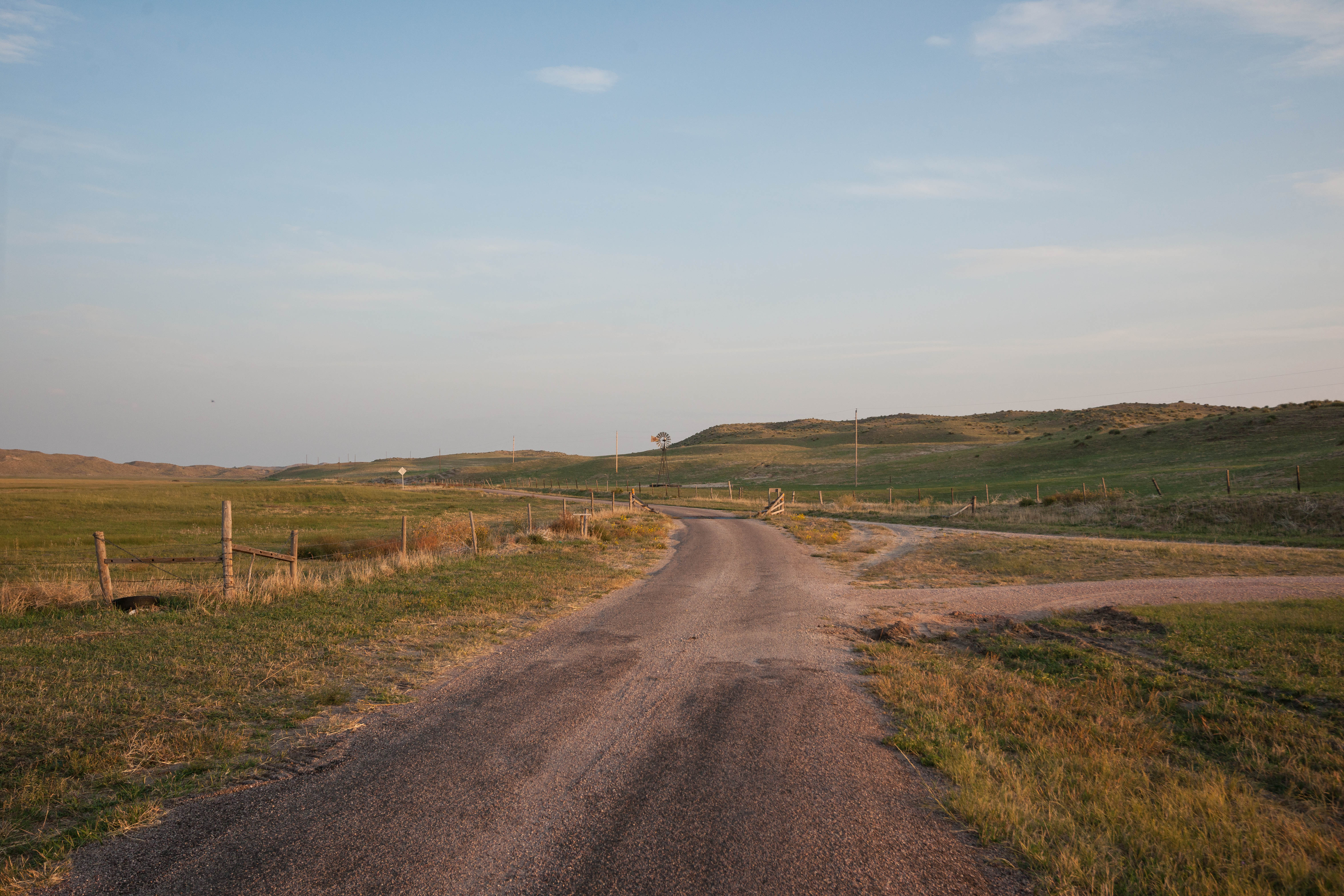 From